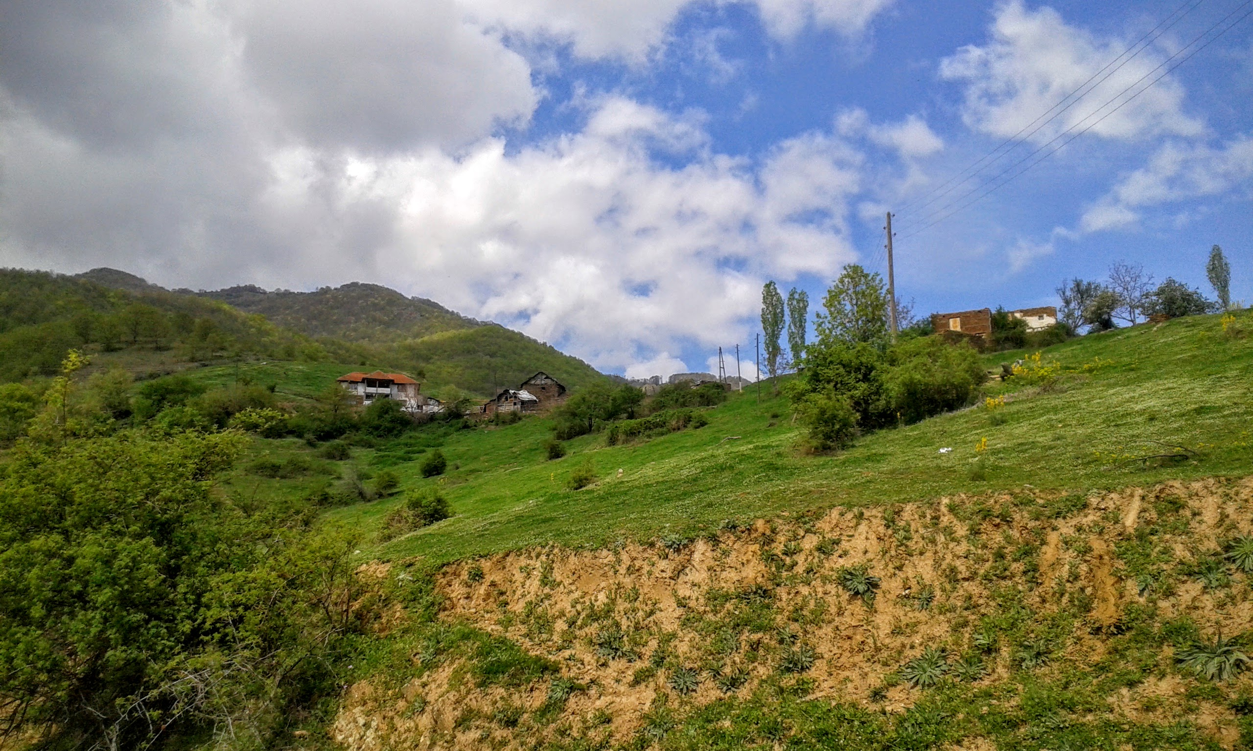 View of the village Tisovica, Macedonia